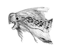 Restored profile of the oviraptorid dinosaur Heyuannia huangi by Matt Martyniuk.